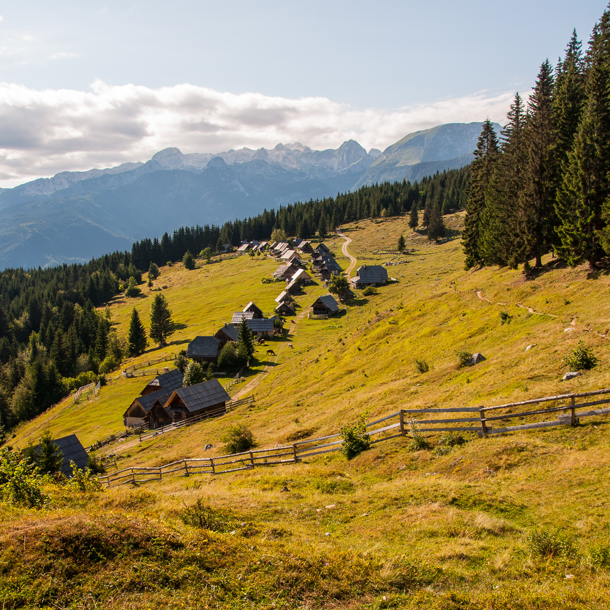 The Zajamniki mountain pasture on the Pokljuka Plateau.